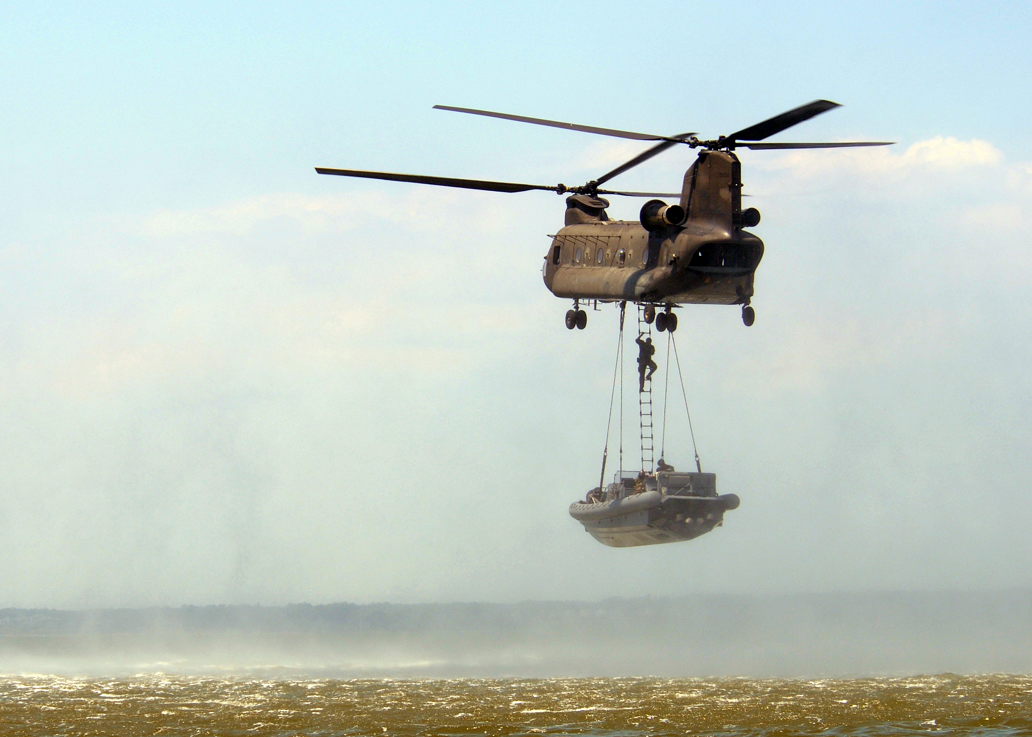 FORT EUSTIS, Va. (July 16, 2008) An Army CH-47 helicopter attached to the 159th Aviation Regiment lifts a Naval Special Warfare 11-meter rigid hull inflatable boat (RHIB) during a maritime external air transporation system training exercise. The special warfare combatant-craft crewmen (SWCC) aboard the 11-meter RHIB climb a ladder to the helicopter, which can transport the craft over land or water, further expanding the operational reach of the special boat operators. (U.S. Navy photo by Mass Communication Specialist 3rd Class Robyn Gerstenslager/Released)